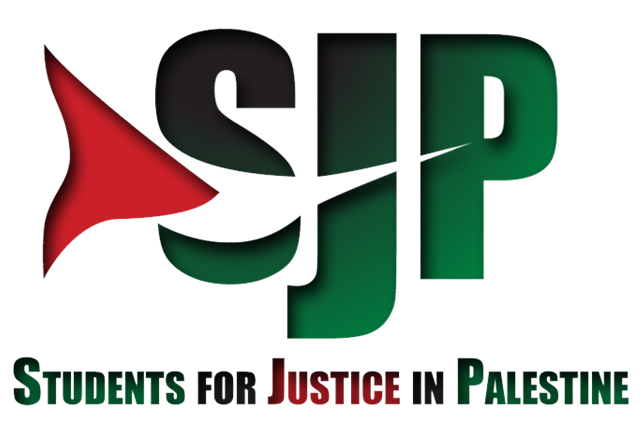 National logo on white background